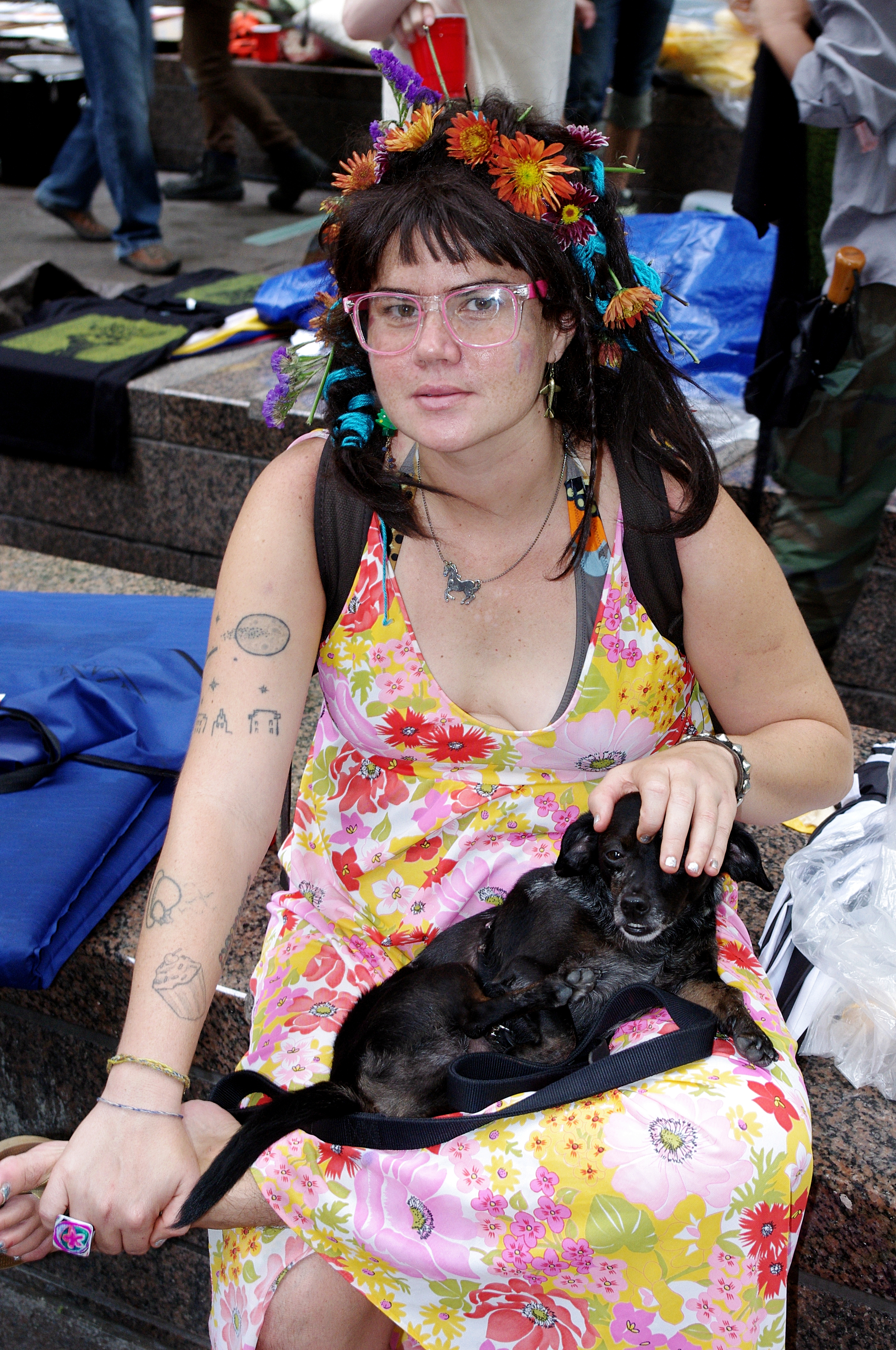 The protest event Occupy Wall Street in Zuccotti Park in New York, on Day 8, September 24. Wall Street has been barricaded off to the public for over a week.